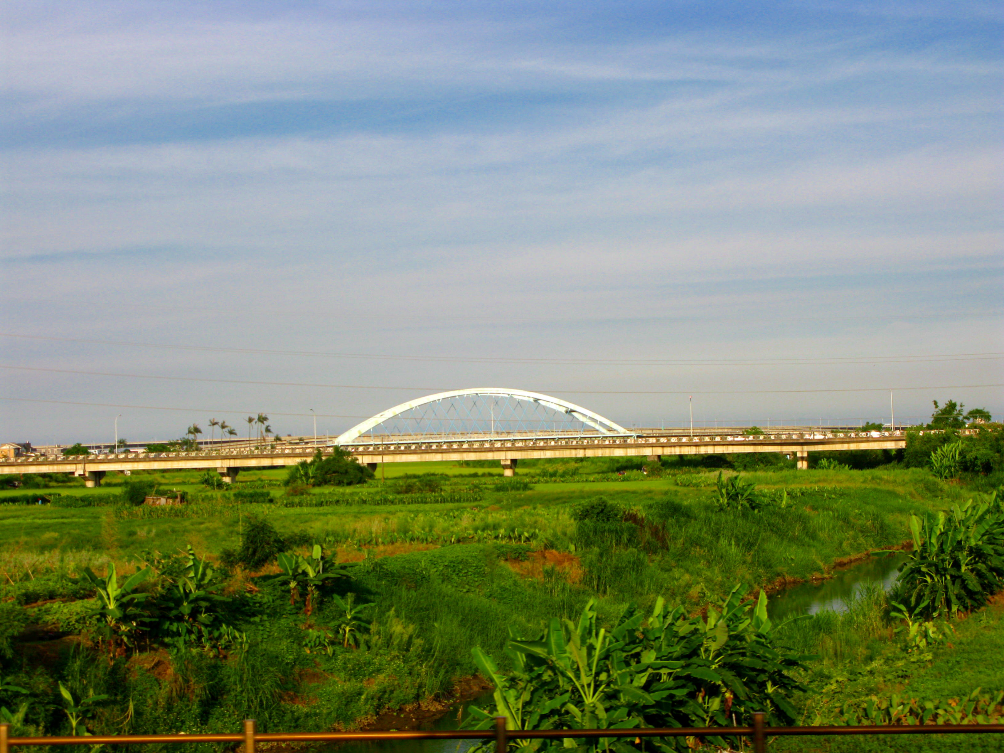 TAIWAN，Yilan River